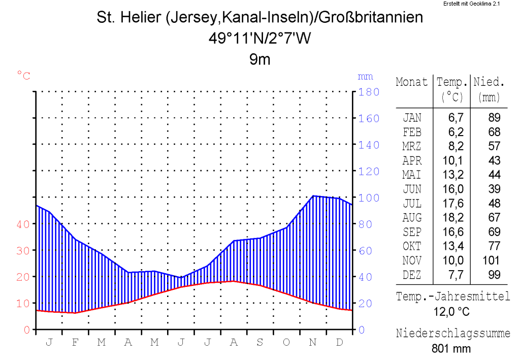 climate chart in the format by Walter and Lieth, metric, °Celsisus and millimeters, made with Geoklima 2.1